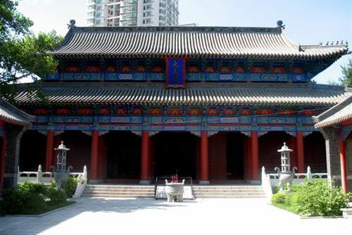 Changchun Wen Temple, Changchun, China 中文（台灣）: 長春文廟 中文（中国大陆）: 长春文庙